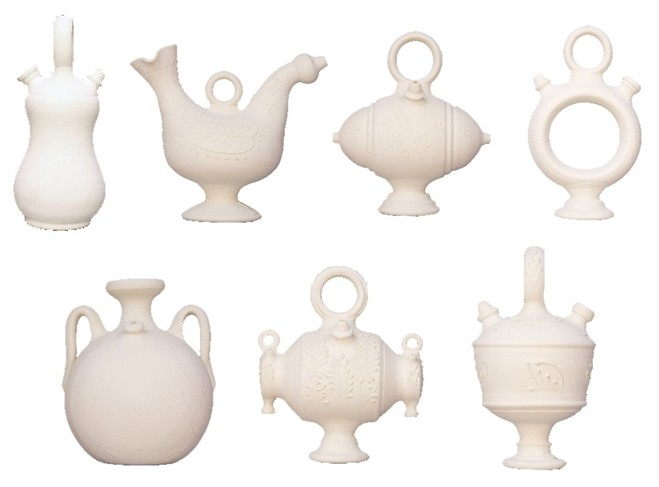 Traditional Spanish pottery made in Agost (Alicante): botijo made of white clay with salt, turning by hand and cooked in oven pikeperch.